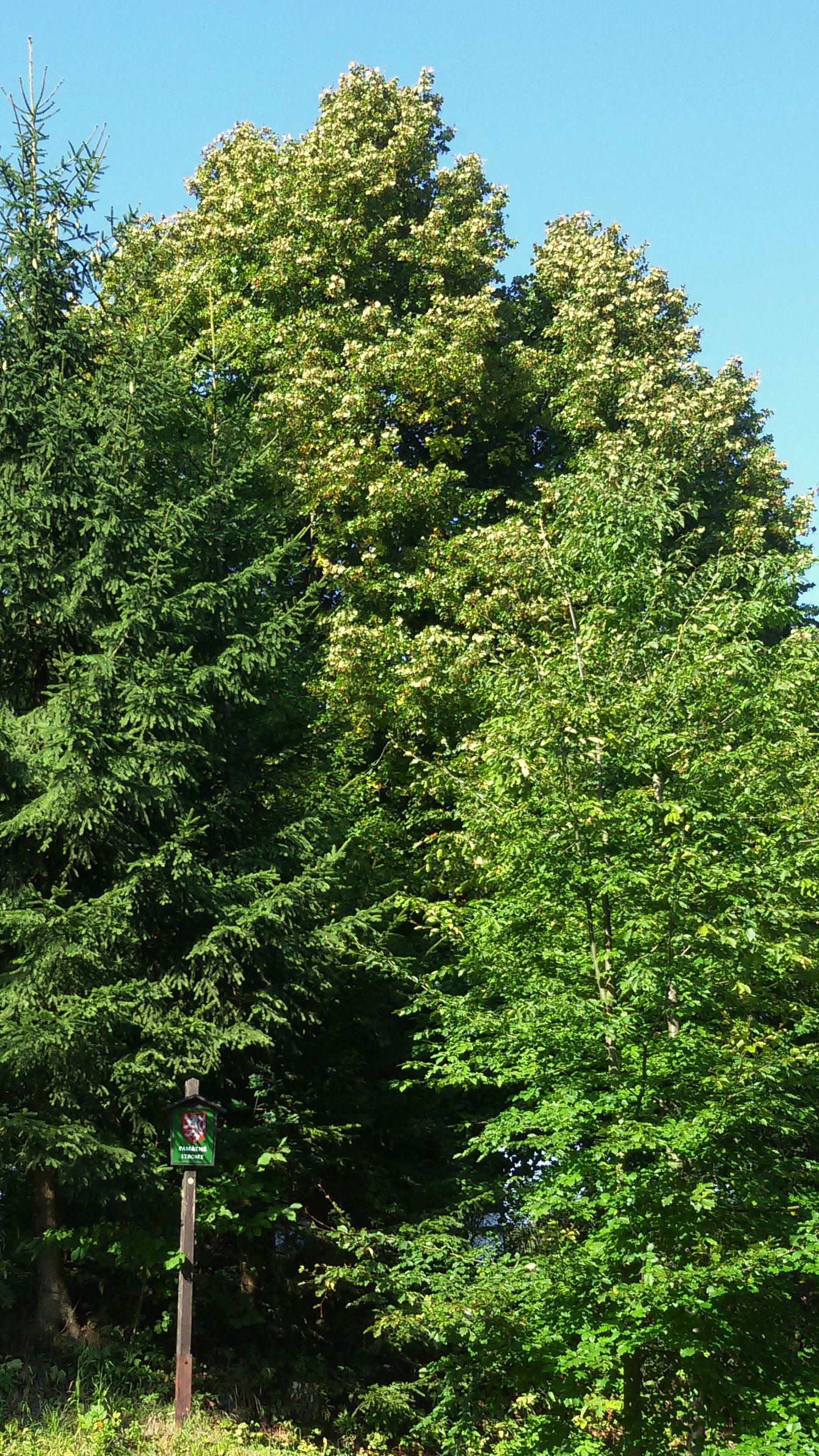 Group of two famous linden trees, Svatá Magdaléna, Volary, Prachatice District, South Bohemian Region, Czechia.